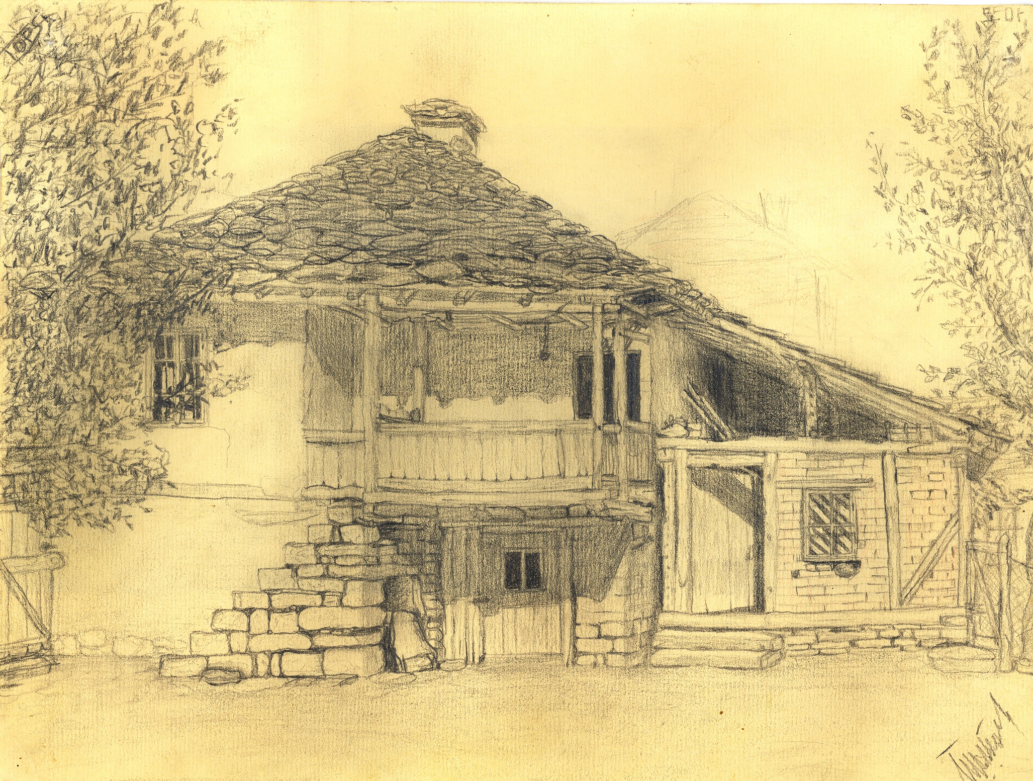 Sketch of an old house in the village of Petrevene, Bulgaria. End of XIX century.